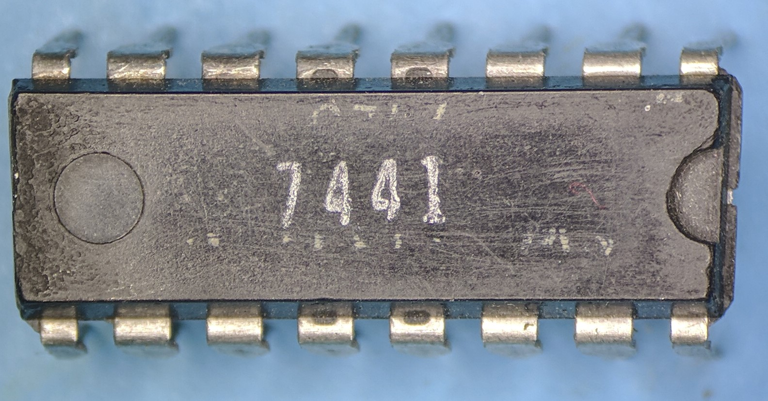 Package top of a 7441 chip of unknown manufacture and unknown datecode.